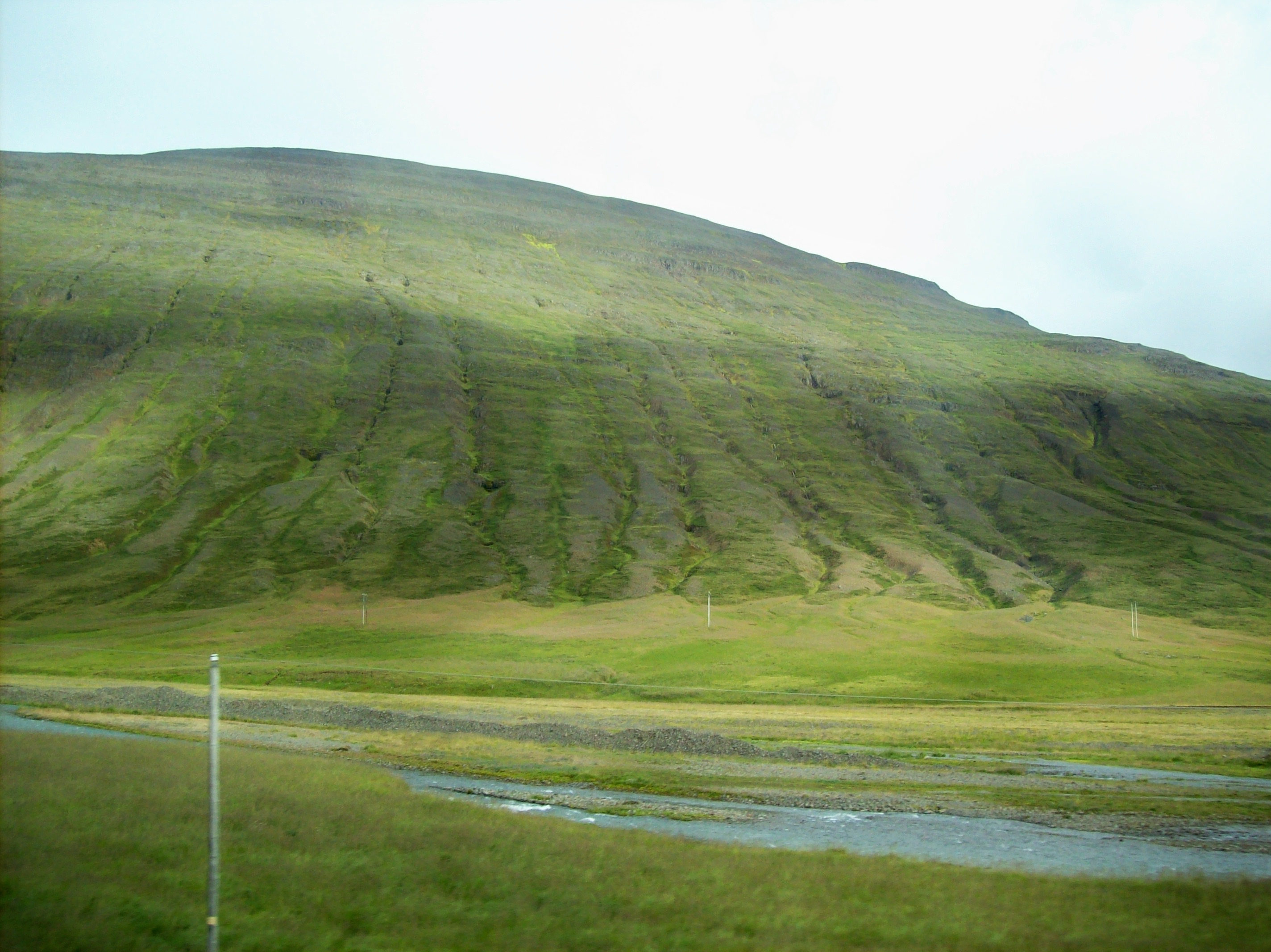 Gullies in Iceland (2012)